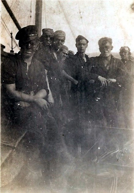 Stokers on HMS Cyclops take a rest about 1942/44 "all the crew had to stoke the boilers even the captain took part" (RJM)